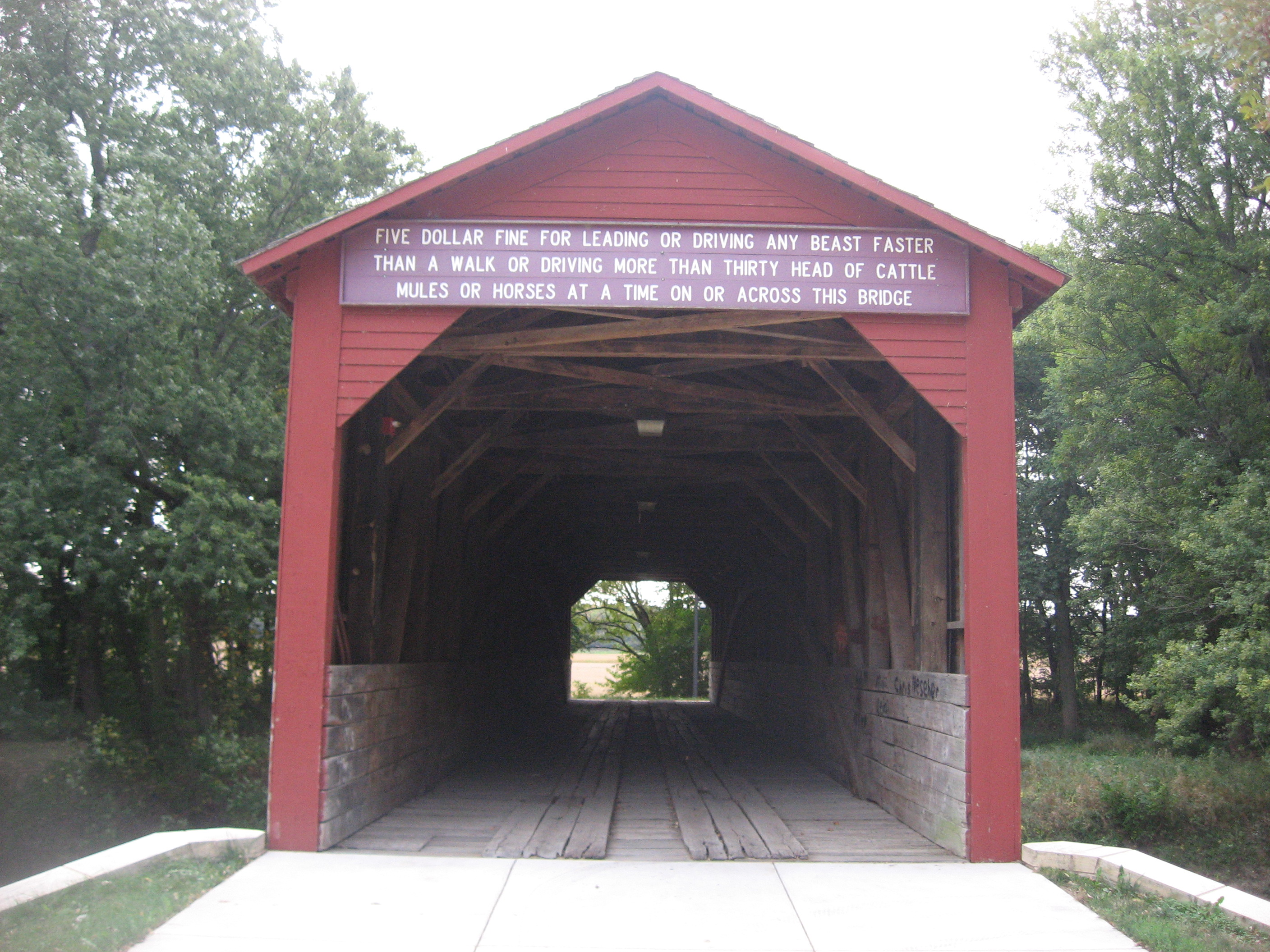 Northwestern portal of the Oquawka Wagon Bridge, which spans Henderson Creek in a park south of Oquawka in far northern Gladstone Township, Henderson County, Illinois, United States. Built in 1866, it is listed on the National Register of Historic Places.